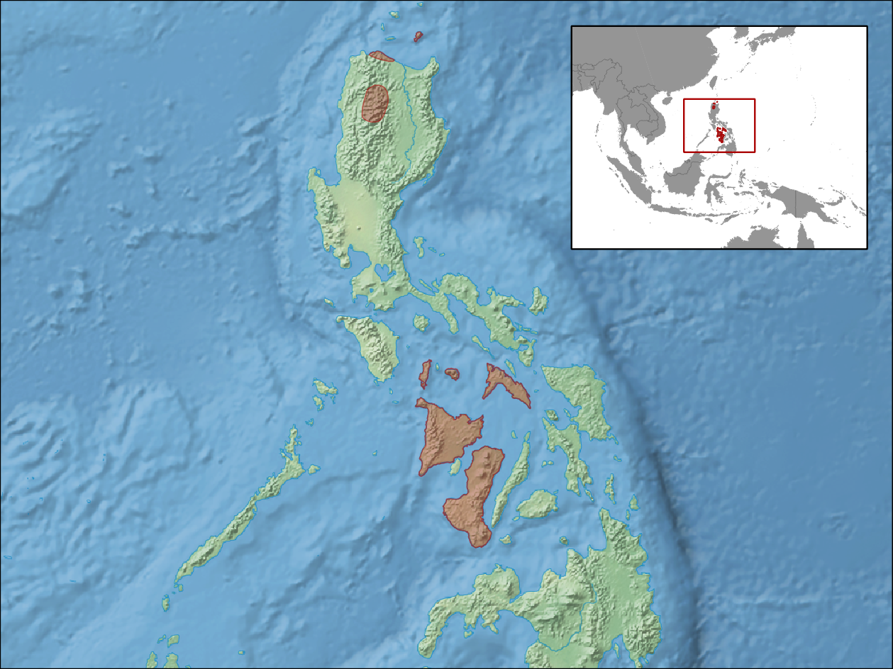 geographic distribution of Brachymeles talinis